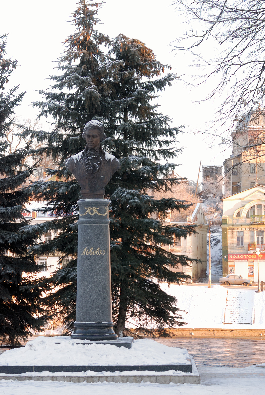 Torzhok, Lvov monument, 2004